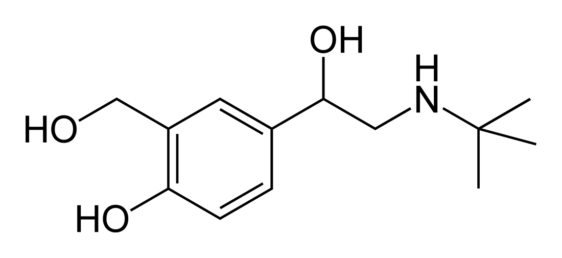 Skeletal formula of salbutamol